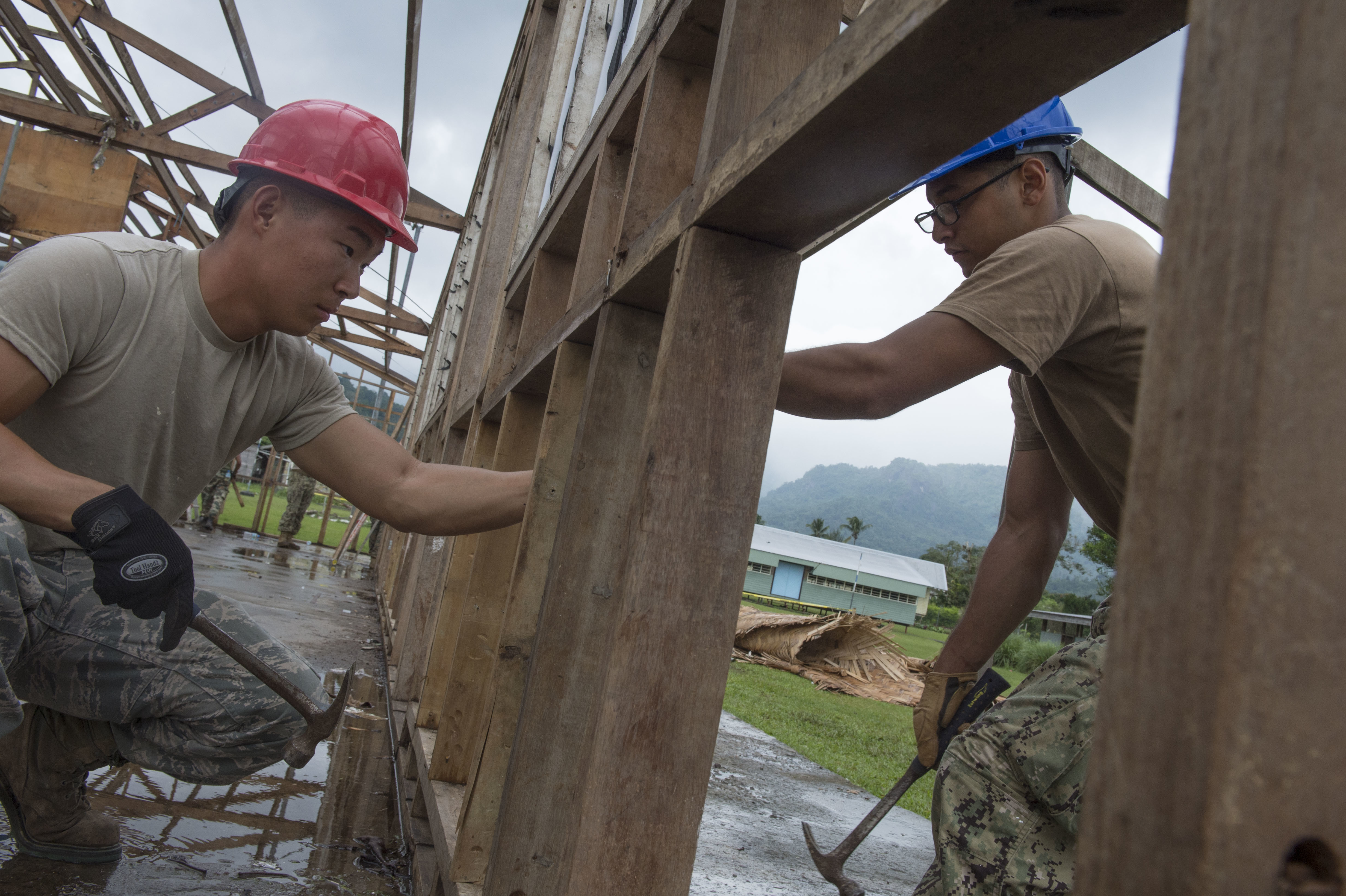 150703-N-UQ938-019 ARAWA, Autonomous Region of Bougainville, Papua New Guinea (July 3, 2015) U.S. Air Force Senior Airman Minchul Chun (left) and U.S. Navy Steelworker 3rd Class Daniel Rosas of Los Angeles, install framing of a building at Tupukas Primary School. A team of U.S. Navy Seabees, U.S. Air Force REDHORSE engineers and Australian Regular Army engineers constructed a new building at the site as part of Pacific Partnership 2015. The hospital ship USNS Mercy (T-AH 19) is currently in Papua New Guinea for its second mission port of PP 2015. Pacific Partnership is in its 10th iteration and is the largest annual multilateral humanitarian assistance and disaster relief preparedness mission conducted in the Indo-Asia-Pacific region. While training for crisis conditions, Pacific Partnership missions to date have provided real world medical care to approximately 270,000 patients and veterinary services to more than 38,000 animals. Critical infrastructure development has been supported in host nations during more than 180 engineering projects. (U.S. Navy photo by Mass Communication Specialist 1st Class Trevor Andersen/RELEASED)